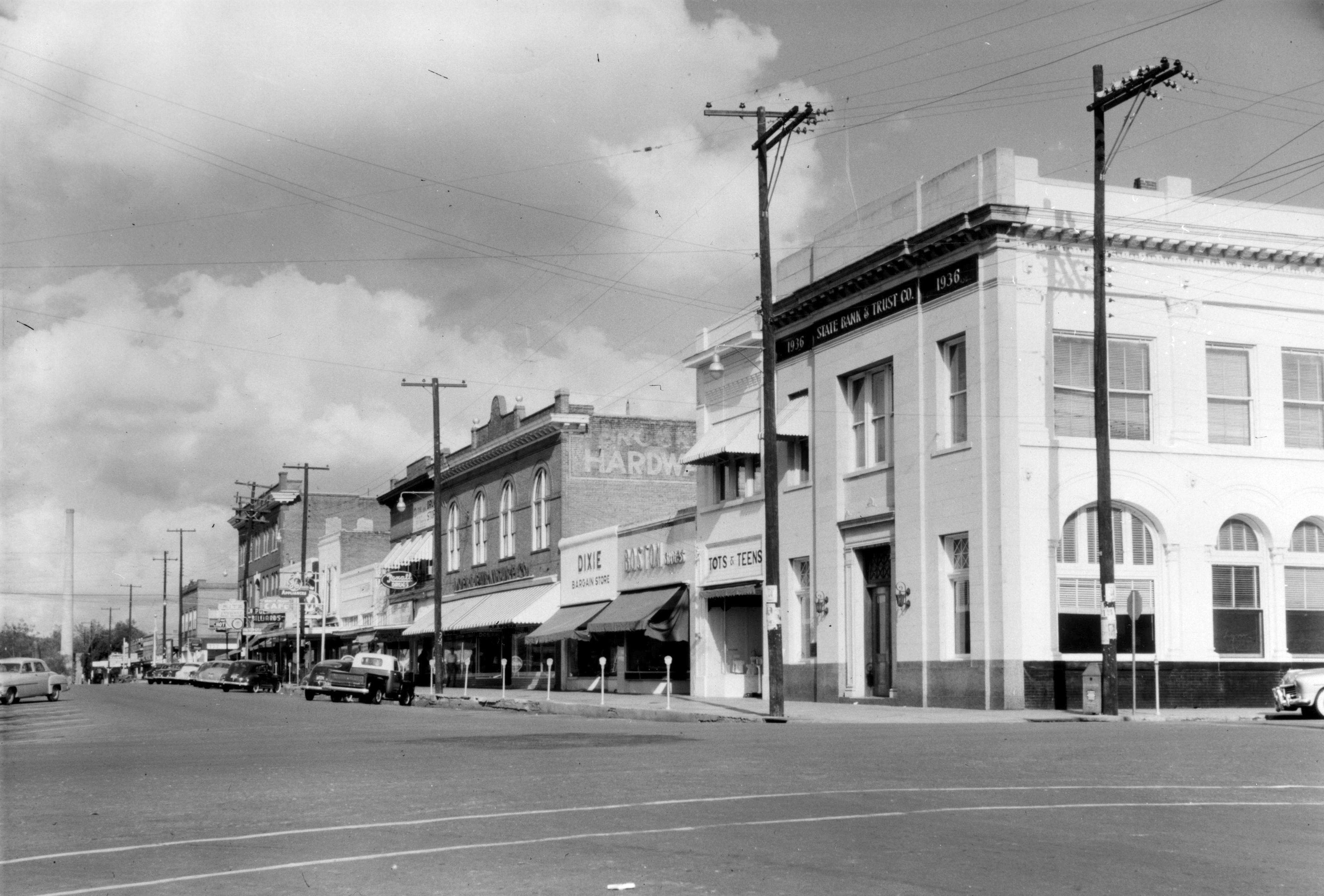 100 block, South Railroad Avenue, Brookhaven, Mississippi.